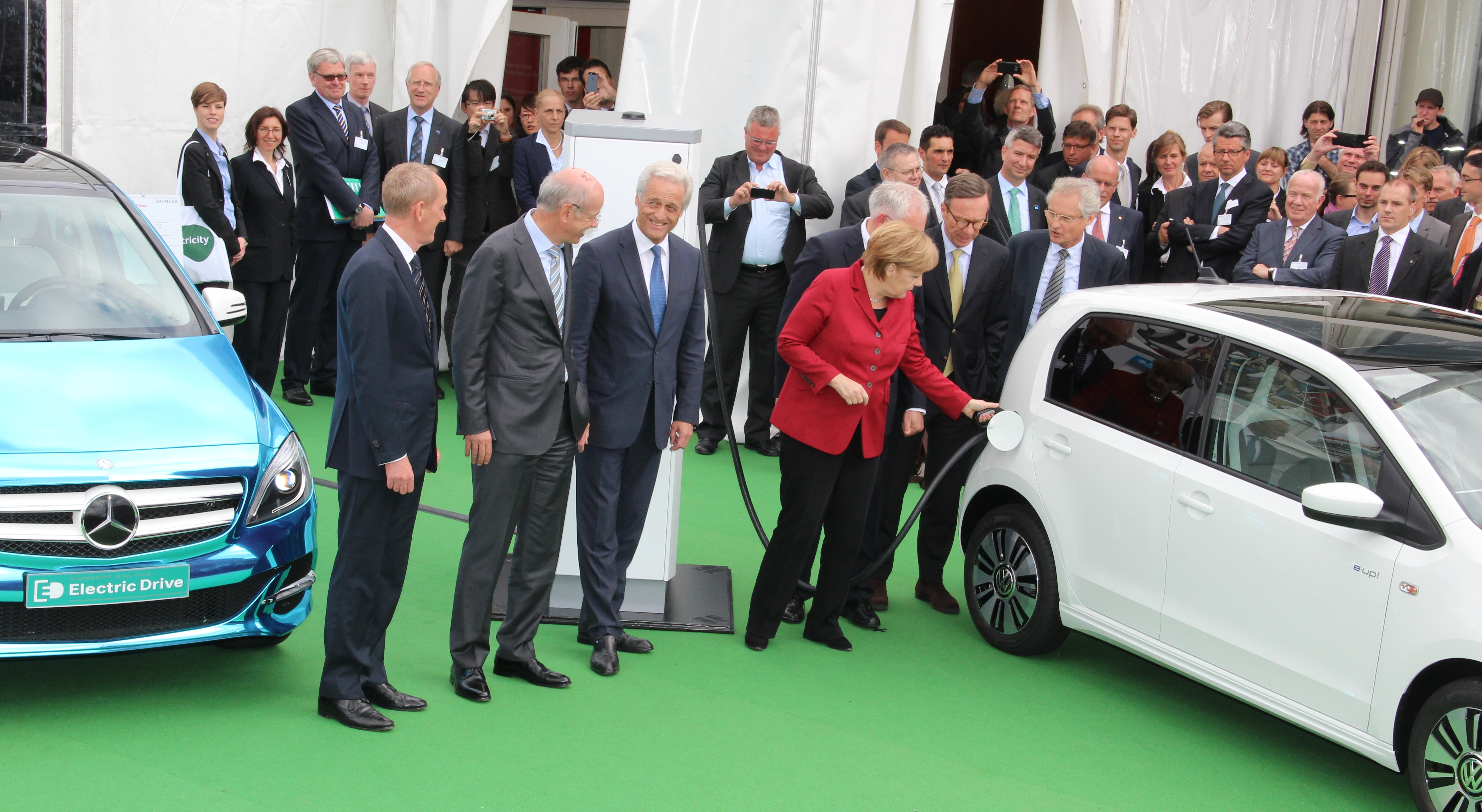 Electromobility Summit Berlin 2013 - Angela Merkel